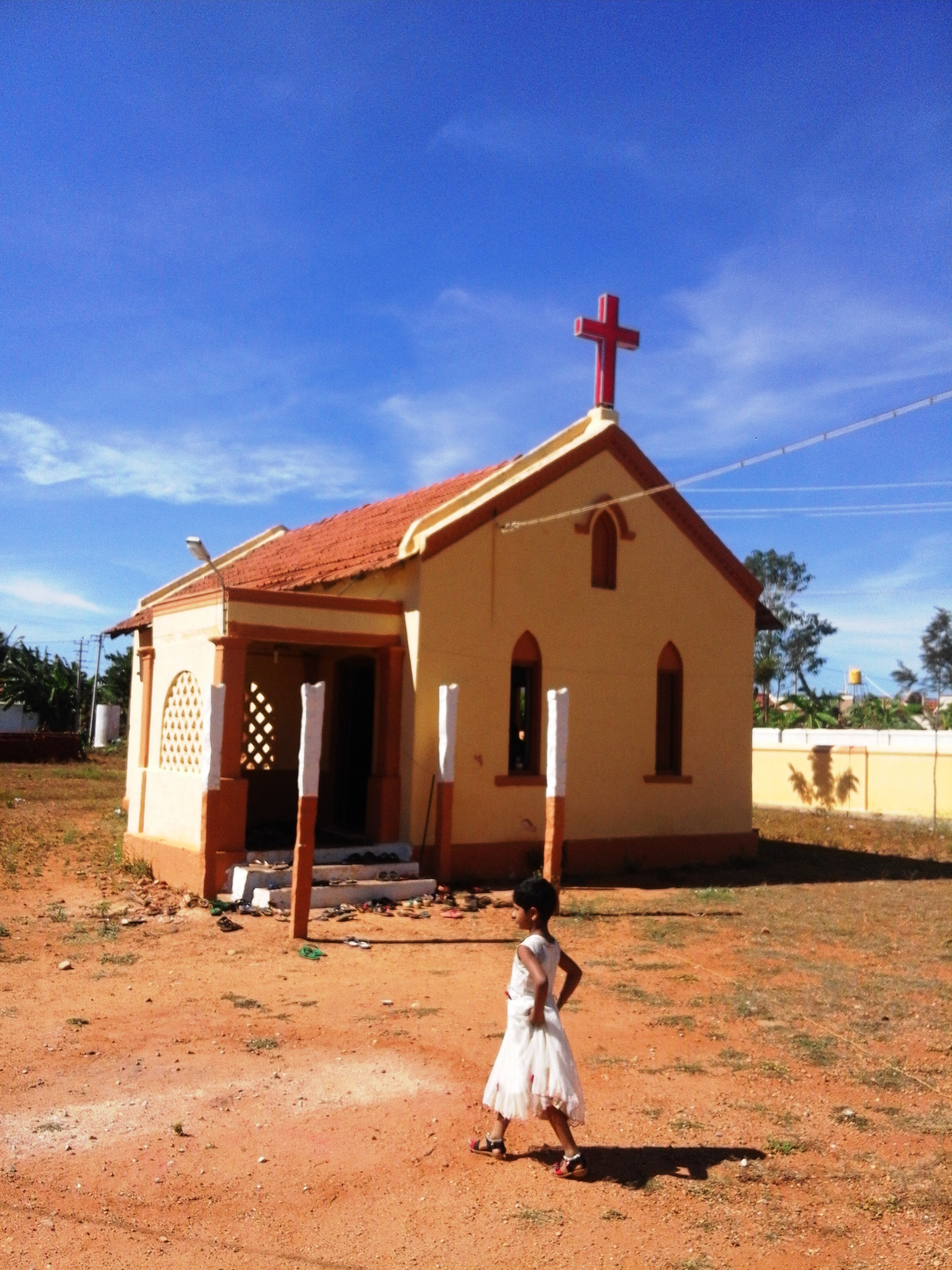 Mariyala Gangavadi village, Chamarajanagar town, Near Mysore city, Karnataka state, India.